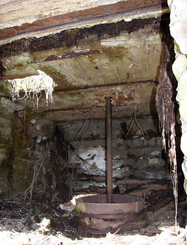 The turbine of the old mill in Koskolovo village